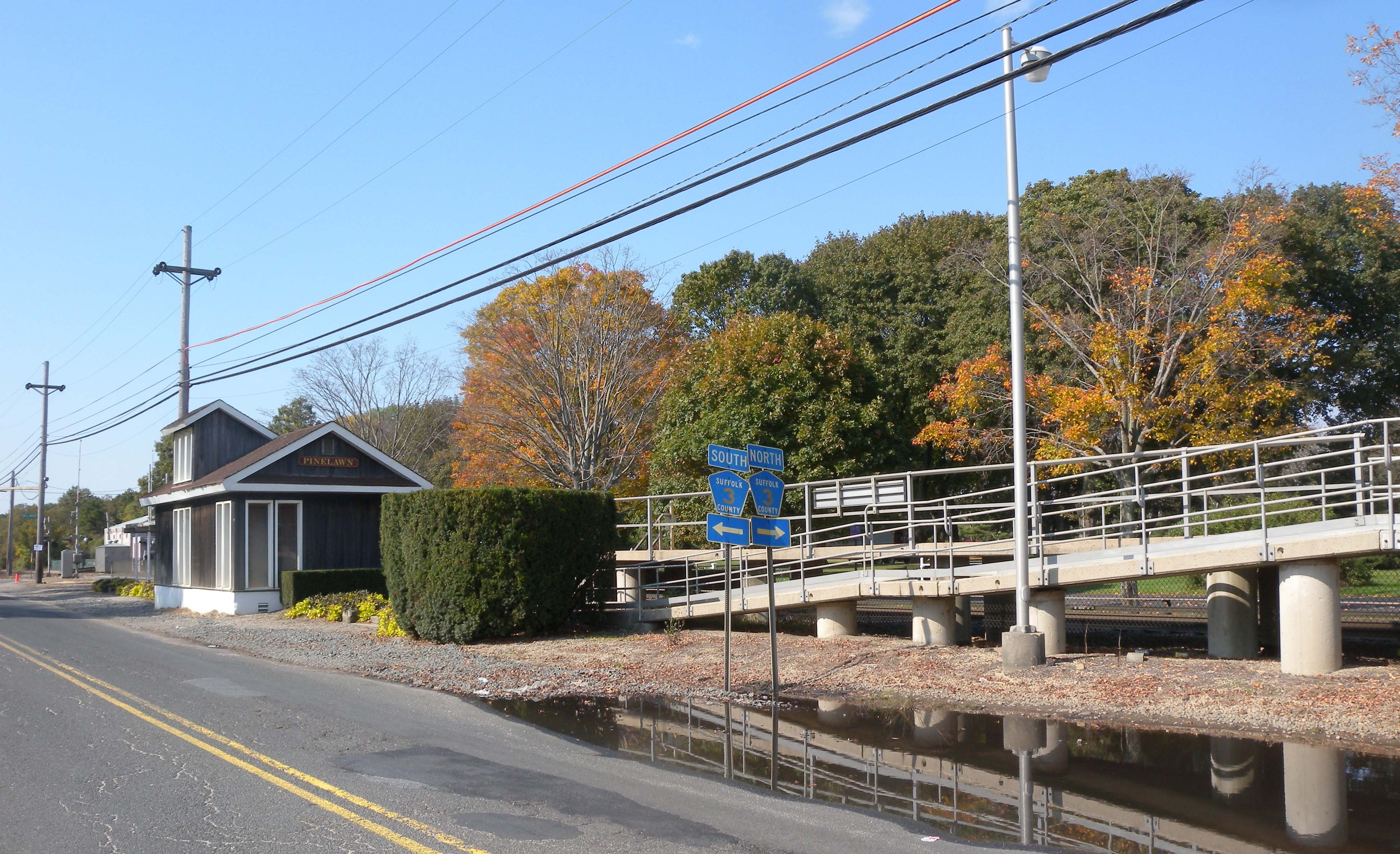 Looking west at Pinelawn (LIRR station) house on a sunny midday